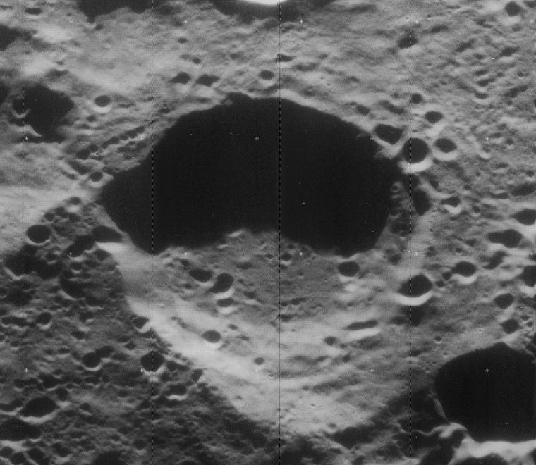 Slightly oblique view of crater Adams on the Moon, facing west.